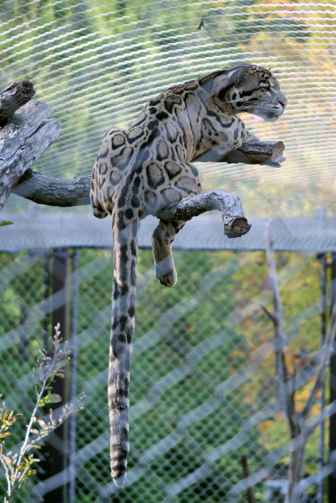 Neofelis nebulosa Distribution and Habitat: This species of clouded leopard ranges from countries of the Himalayas, southern China, and Taiwan to peninsula Malaysia. In 2006, scientists determined that the clouded leopards living on the islands of Sumatra and Borneo are a distinct species, Neofelis diardi. Rarely seen in the wild, there is some controversy as to whether the clouded leopard is an arboreal species—strongly tied to dense tropical evergreen forest—or a terrestrial hunter that uses roads and trails in logged forests. The answer is probably somewhere in between—the clouded leopard can hunt both in trees and on the ground. These cats can also live in drier forests if there is suitable prey.